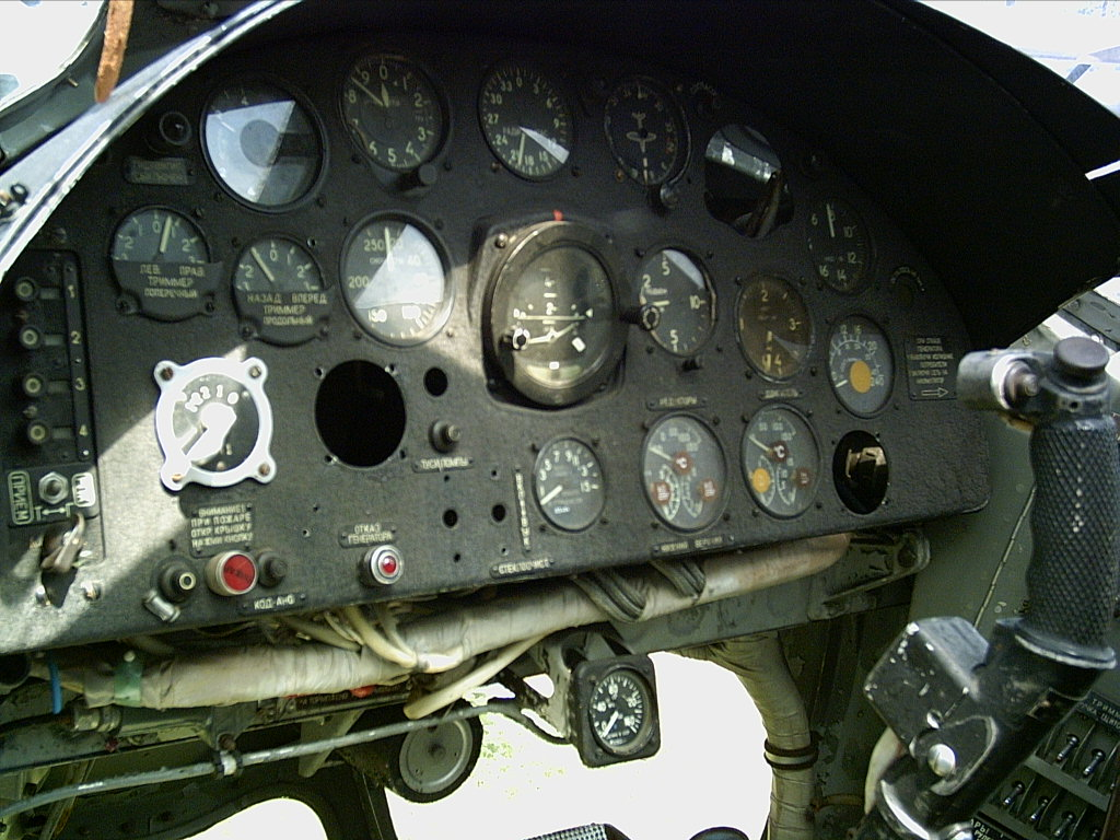 Mil Mi-1 cockpit, Kbely museum, Prague, Czech Republic